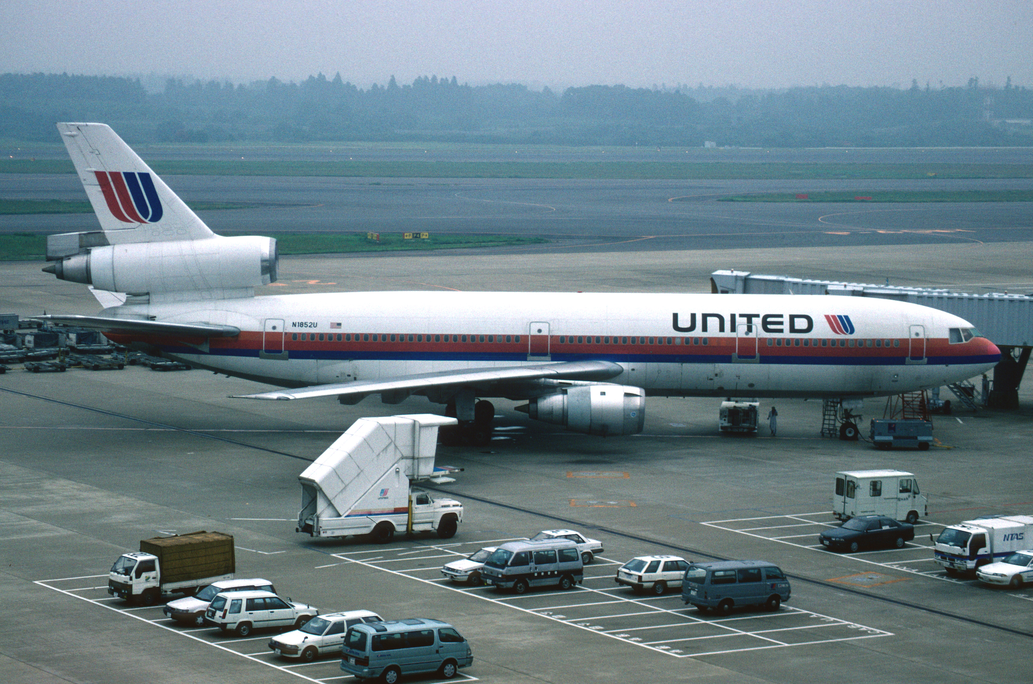 United Airlines DC-10-30 (N1852U/47811/302)